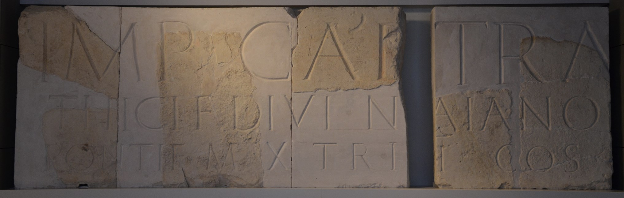 Monumental inscription from a triumphal arch dedicated to Hadrian, discovered near the camp of the Sixth Legion at Tel Shalem, Israel Museum, Jerusalem, Israel